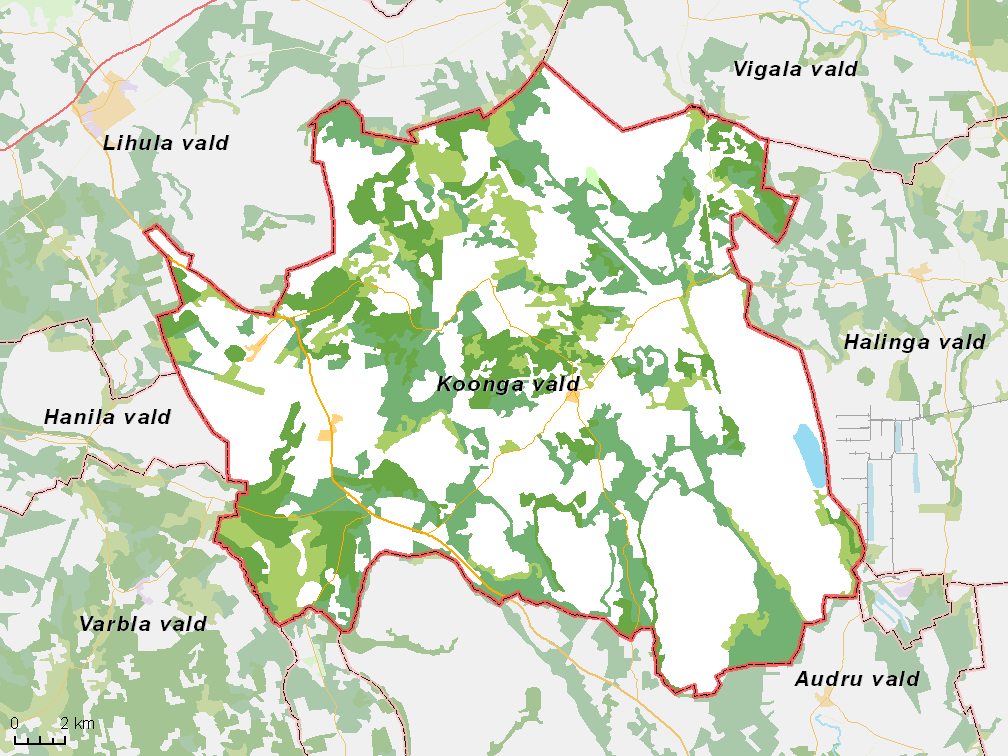 Map of municipality in Estonia